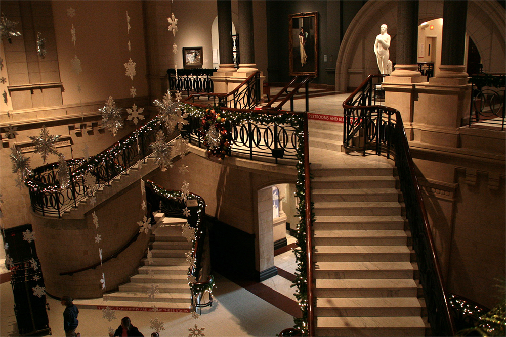 Cincinnati Art Museum Staircase.